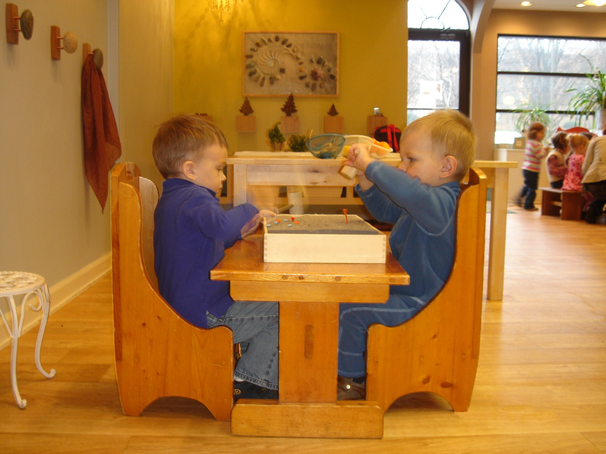 3-year boys busy in construction skills training; see Video. Courtesy of Alyona and Sergey